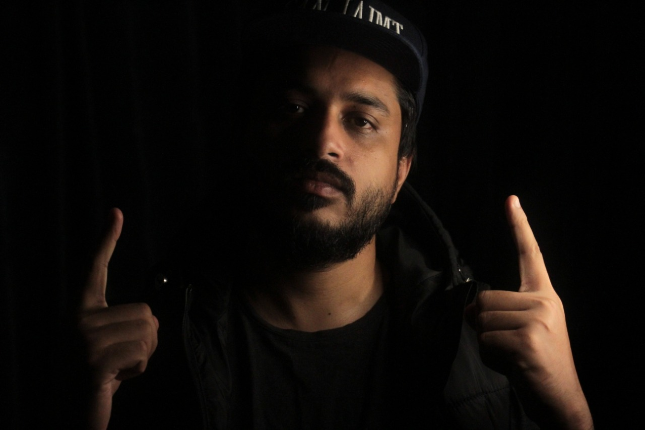 San Jaimt during shoot of veendeduppu